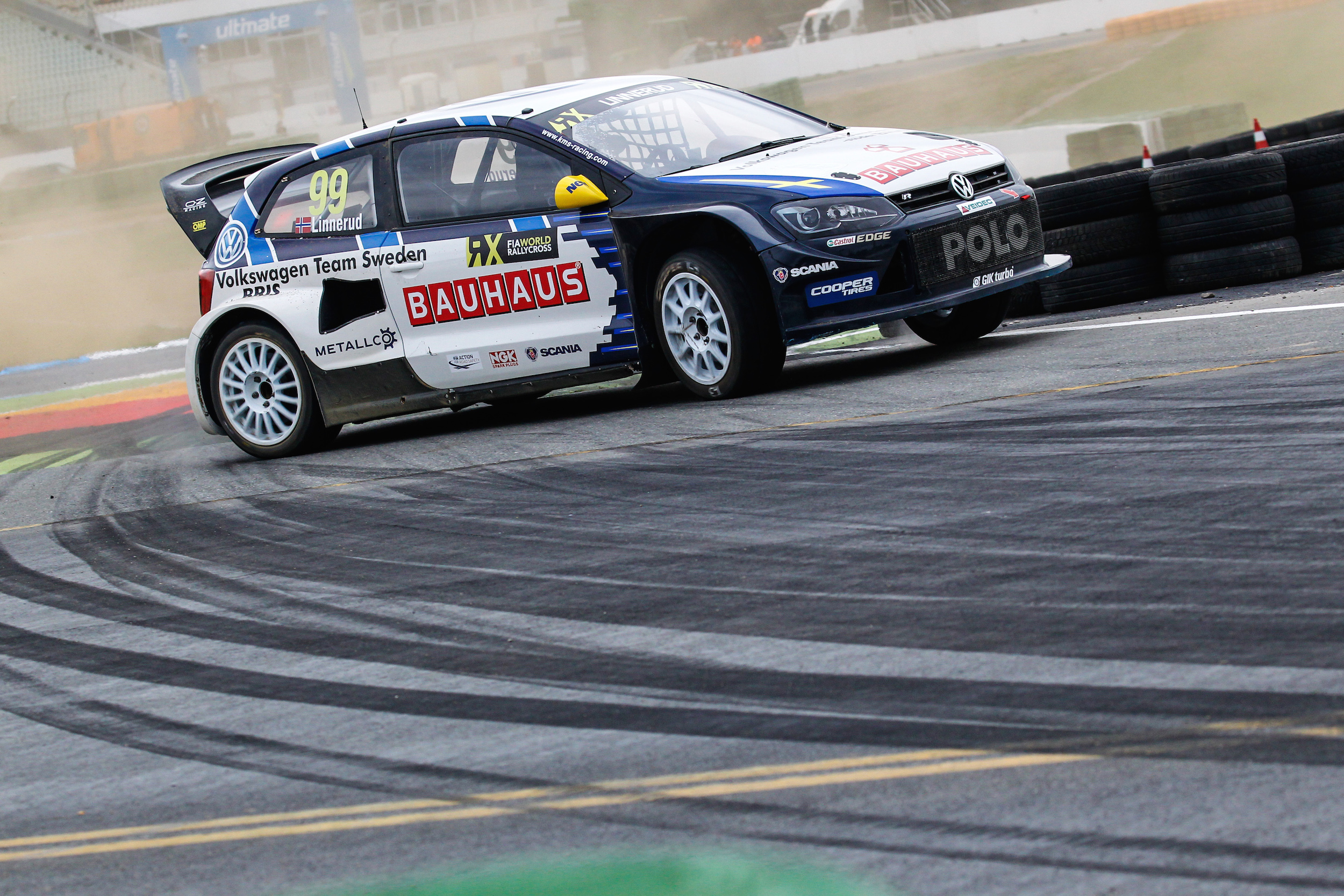 Norwegian rallycross driver Tord Linnerud in his VW Polo Supercar. Round 2 of the 2015 FIA World Rallycross Championship, at Hockenheimring, Germany.